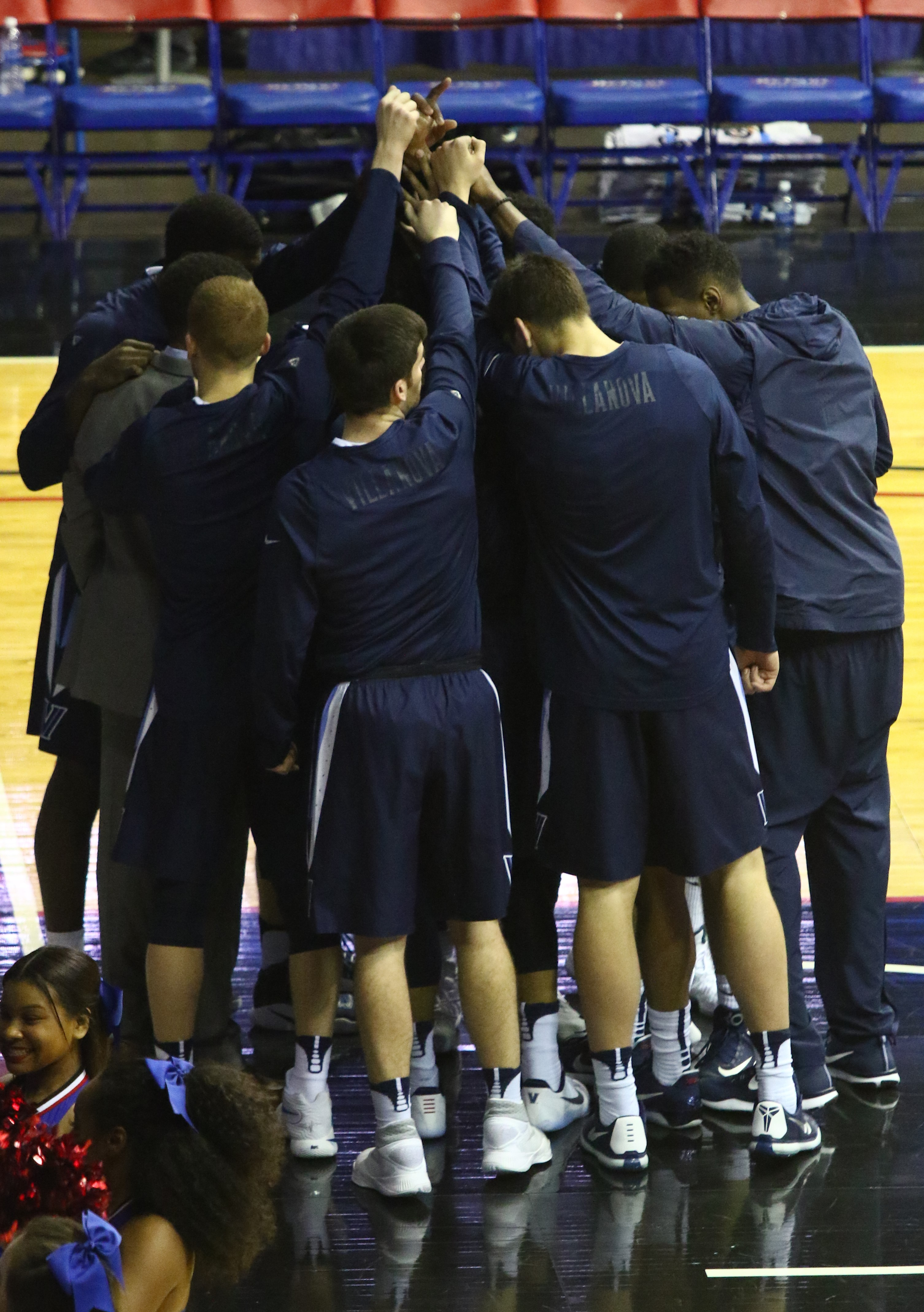 w:2016–17 Villanova Wildcats men's basketball team at Allstate Arena